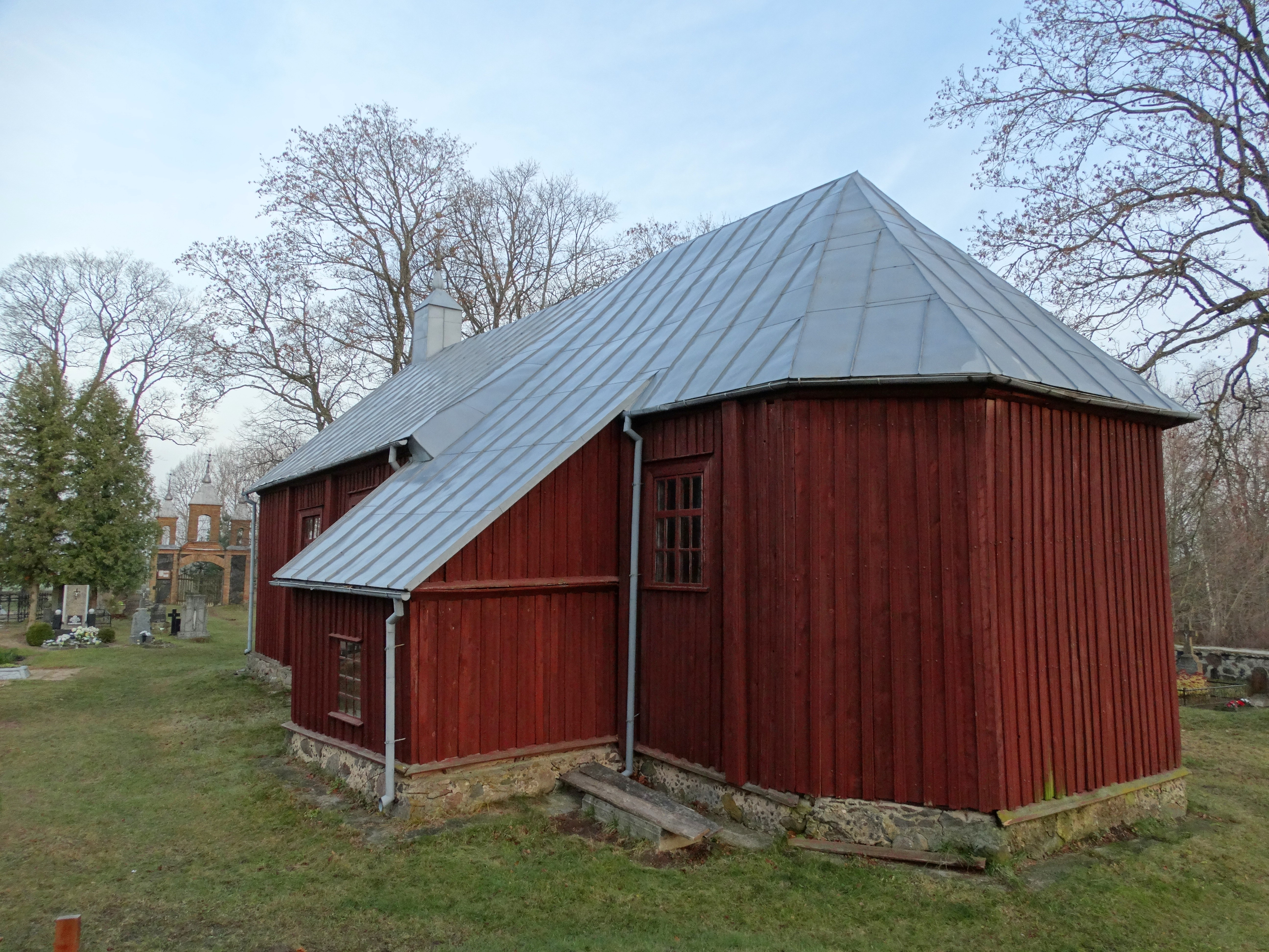 Chapel in Diliai, Biržai district, Lithuania